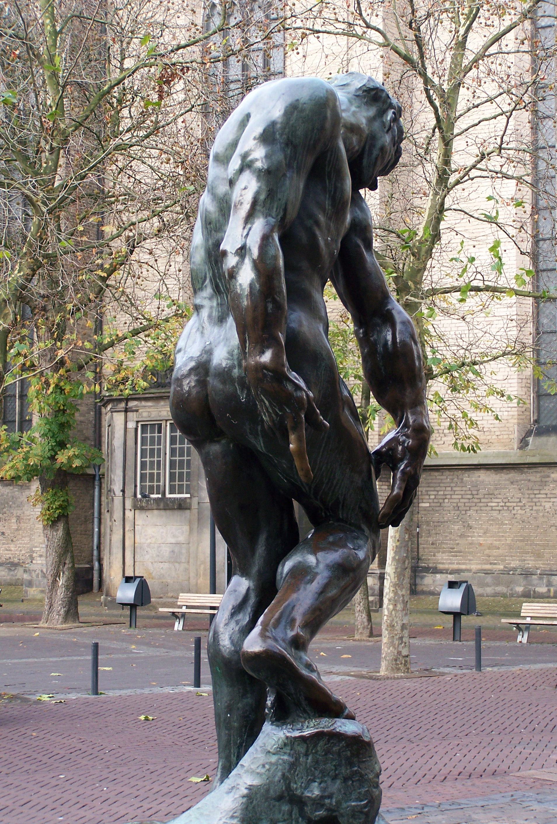 Adam by Rodin, made in 1881, placed in Zwolle at the Grote Kerkplein in 1965. (The statue has a telephonenumber added at the pedestal "CALL ME 0900-4004242", a work of audio-art made by Arnoud Holleman in Oktober 2006. Calling this number you will hear the story of the statue spoken by "Adam" himself.)